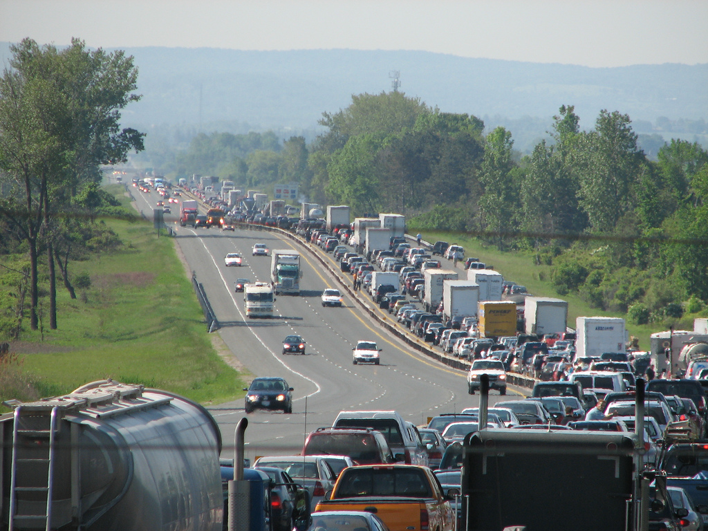 Highway 400 in Ontario during the summer cottage season, following a traffic collision. Due to the spaced out interchanges on Highway 400 and the lack of police presence on this day, traffic queued for several kilometres. North of Highway 89, facing south.